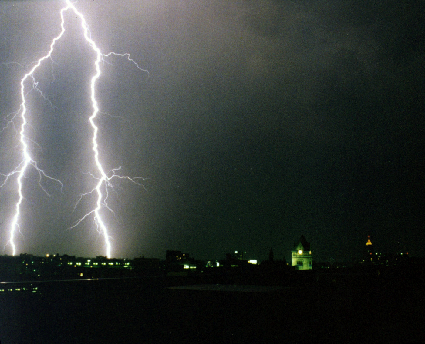 Lightning in Detroit, Michigan taken from ontop of the Wayne State University "University Towers" building. The building glowing green on the right is the Wayne State University Old Main building and the building with the red tip is the Fischer Building in Detroit's New Center area.